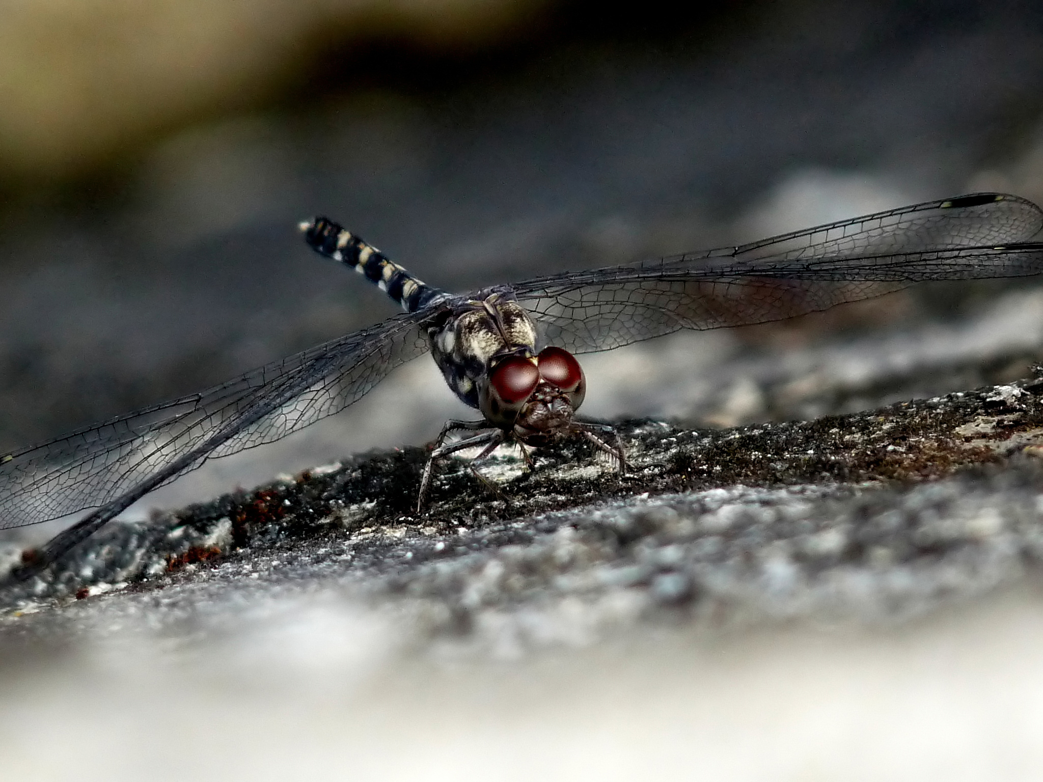 Rock Dweller/Granite Ghost (Bradinopyga geminata) A medium sized grey dragonfly with black and white markings. Grey thorax is marbled and peppered with black and light grey. This species is usually seen perched on compound stone walls, boulders etc. It easily merges with such perching sites because of its colouration. The species is commonly found near rock pools and other similar small water collections. It is common in the urban landscapes and breeds in overhead tanks and garden ponds. I found him on the granite masonry of my water well. Taken at Kadavoor, Kerala, India.